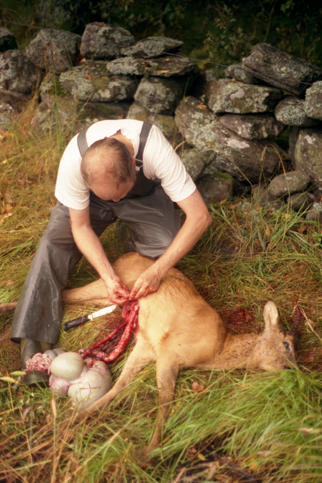 Just after a succesful roe deer hunt. This is a scan from an negative. The date is scan date.